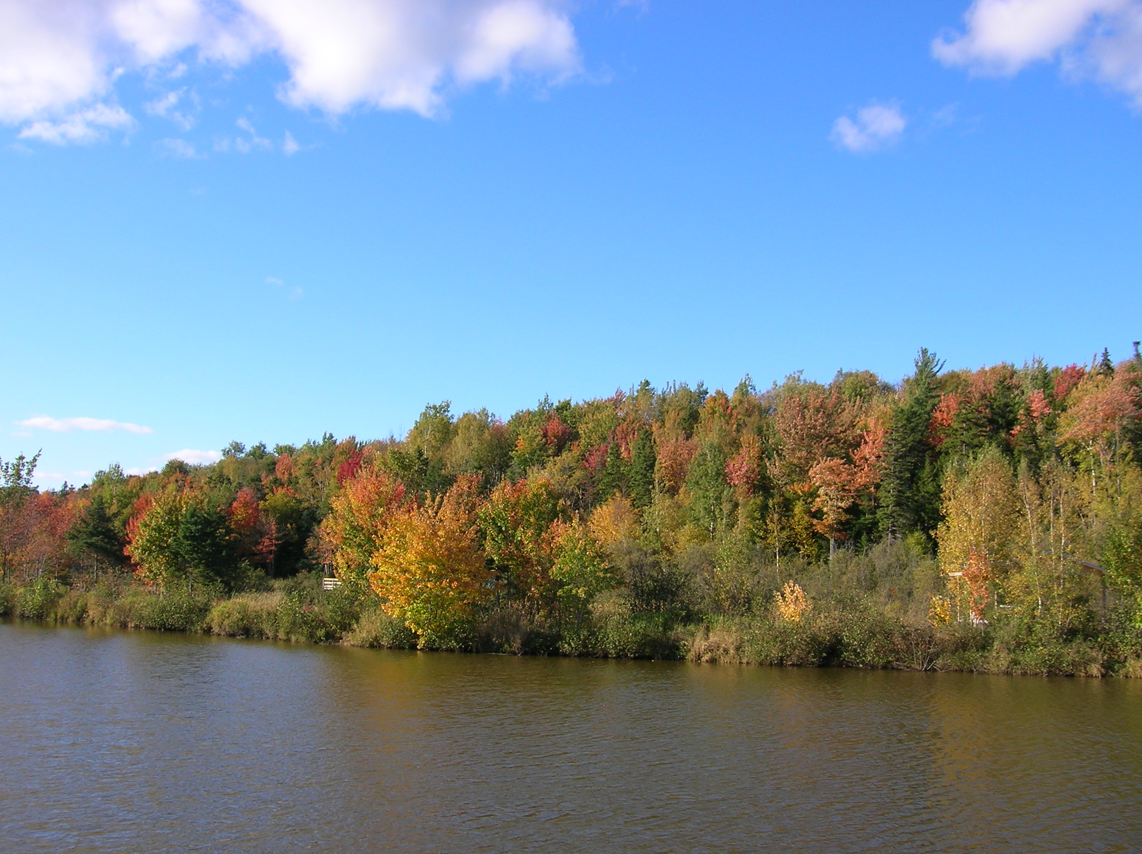 Lake in Mapleton Park, Moncton